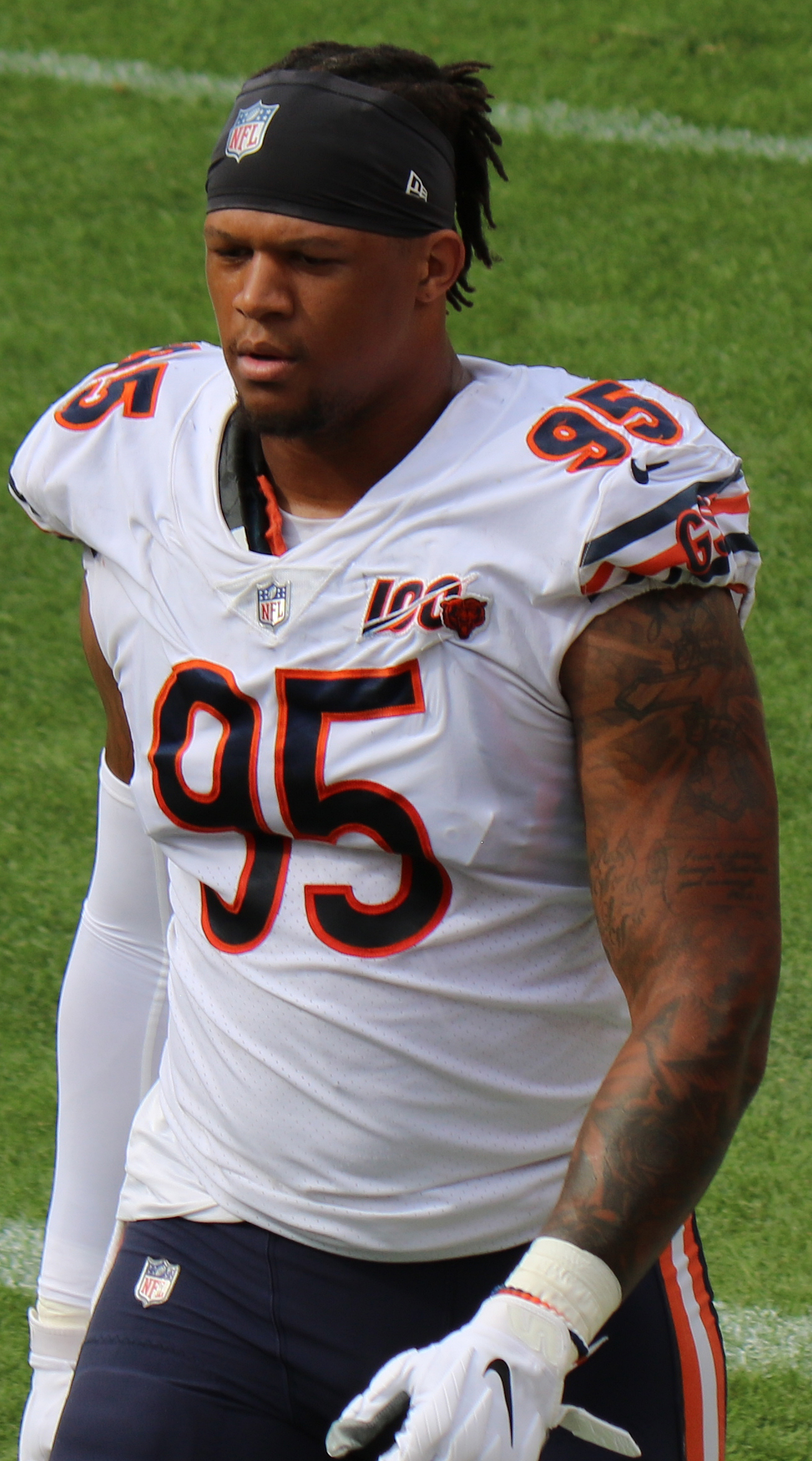 Roy Robertson-Harris, a National Football League player.